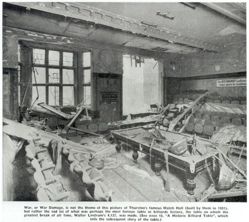 Bombed Matchroom in May 1940